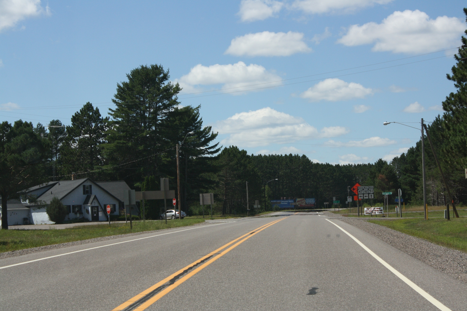 Looking north at downtown Manitowish, Wisconsin at the eastern terminus of Wisconsin Highway 182 and the northern terminus of Wisconsin Highway 47.